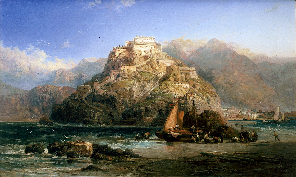 View of San Sebastian, by James Webb Monte Urgull with the buildings of the Castillo de Santa Cruz de la Mota shown on the sides and summit, on the coast at San Sebastian, northern Spain. San Sebastian, it's small harbour and walled town, are partially hidden behind the right flank of Monte Urgull. Painting: 1015 mm x 1675 mm; Frame: 1425 mm x 2080 mm x 160 mm